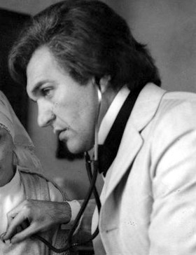 Leopoldo Verona- actor argentino